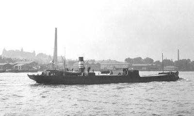 SS Suntrap (1940) at Woolwich bound for Nine Elms Reproduction ID: P30225 Maker: Unknown Date: 9 September 1931